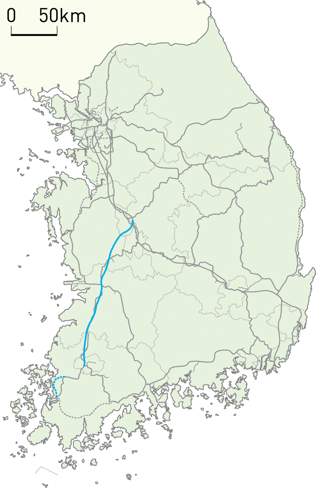 Korail Honam HSR Line Routemap